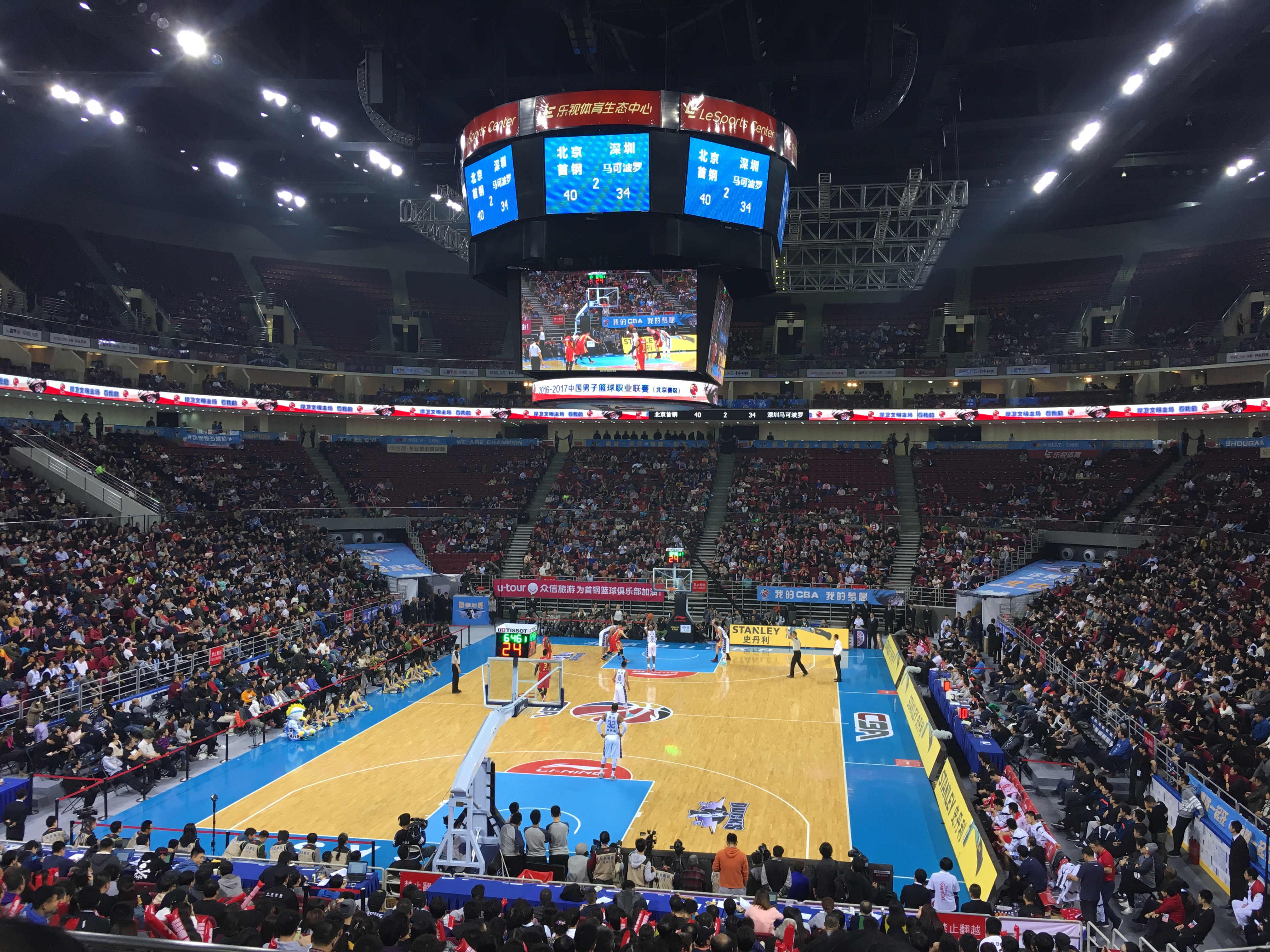 Beijing Ducks vs Shenzhen Leopards on December 4th 2016 at the LeSports Center, Beijing